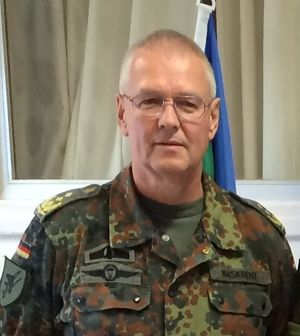 Lieutenant General Dieter Naskrent